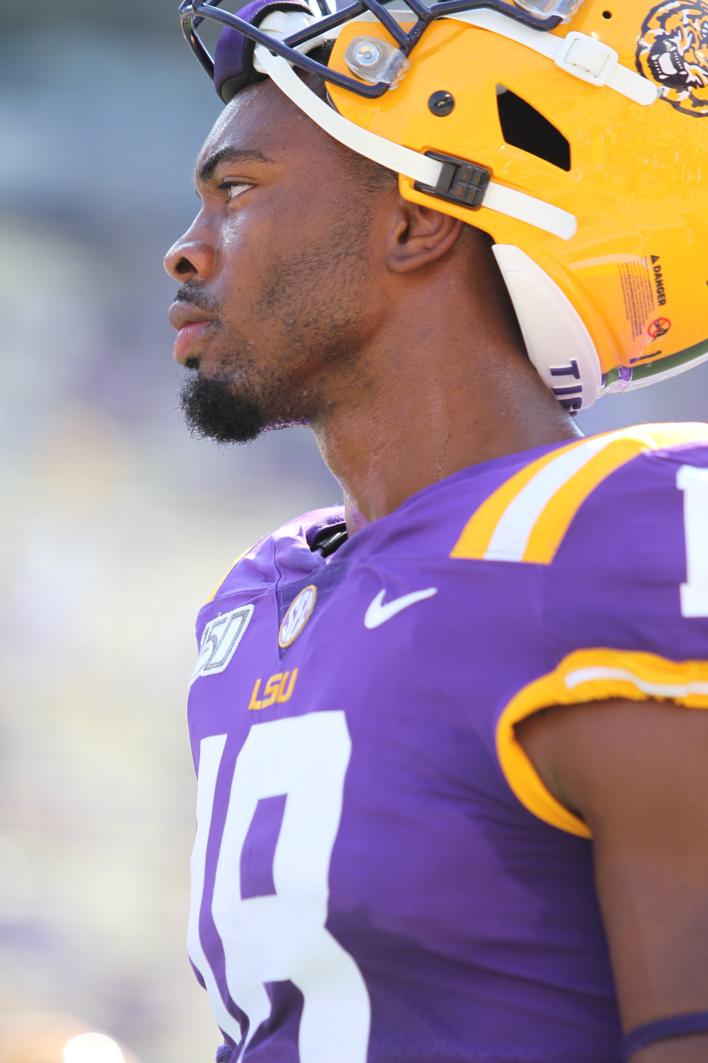 K’Lavon Chaisson, #18, Defensive Line Backer, LSU Tigers Football vs Utah State Aggies, Tiger Stadium, October 5, 2019, Baton Rouge, Louisiana, Tammy Anthony Baker, Photographer @tabinla @tmabaker @S4CKGURU